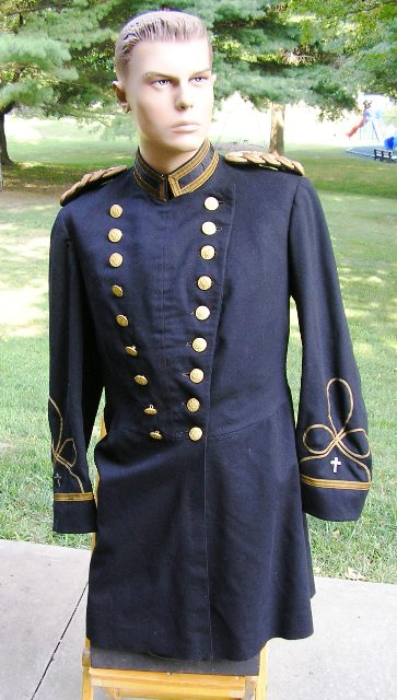 Old WWI military uniform coat for Christian chaplains. Estimated date: 1902.